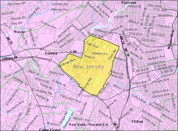 Census Bureau map of Woodland Park, formerly known as West Paterson